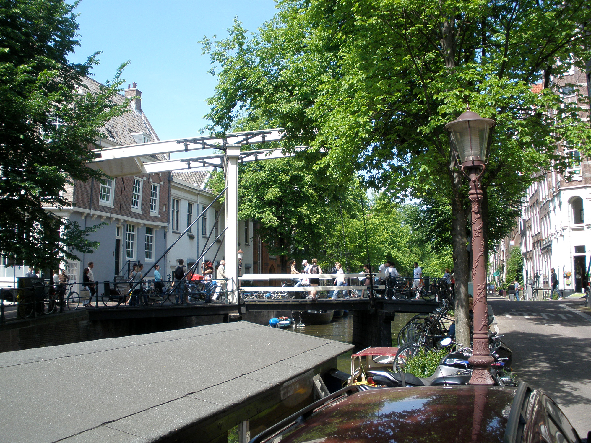 The bridge over the Groenburgwal canal in Amsterdam, at the intersection with Staalstraat. The bridge is a popular spot for tourists to take photos of the Zuiderkerk church. It is shown on Claude Monet's painting of the Zuiderkerk.